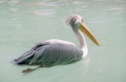 Pink-backed Pelican, Senegal.